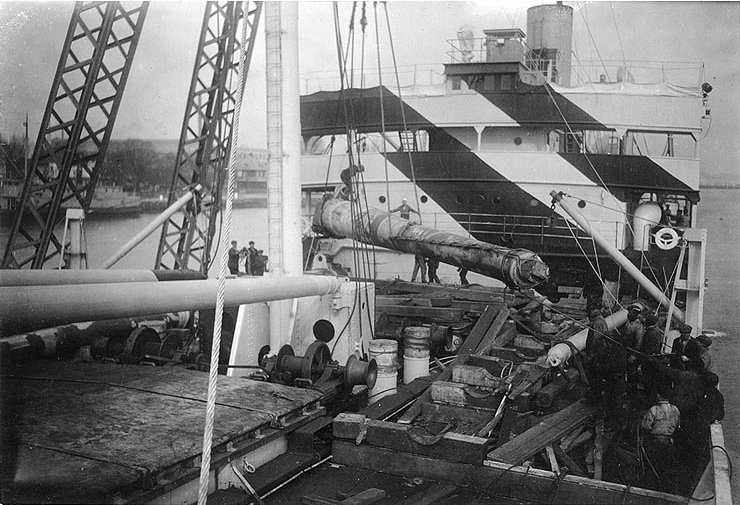 USS West Hosokie (ID-3569) at the Philadelphia Navy Yard c. 10 March 1919, unloading 14" rail guns returned from France.